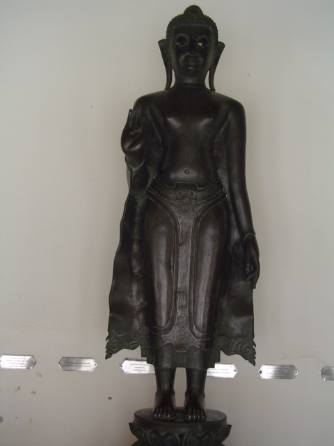 "In the attitude of the style of the Lopburi Period, cast and enlarged from an ancient model." (statue caption)